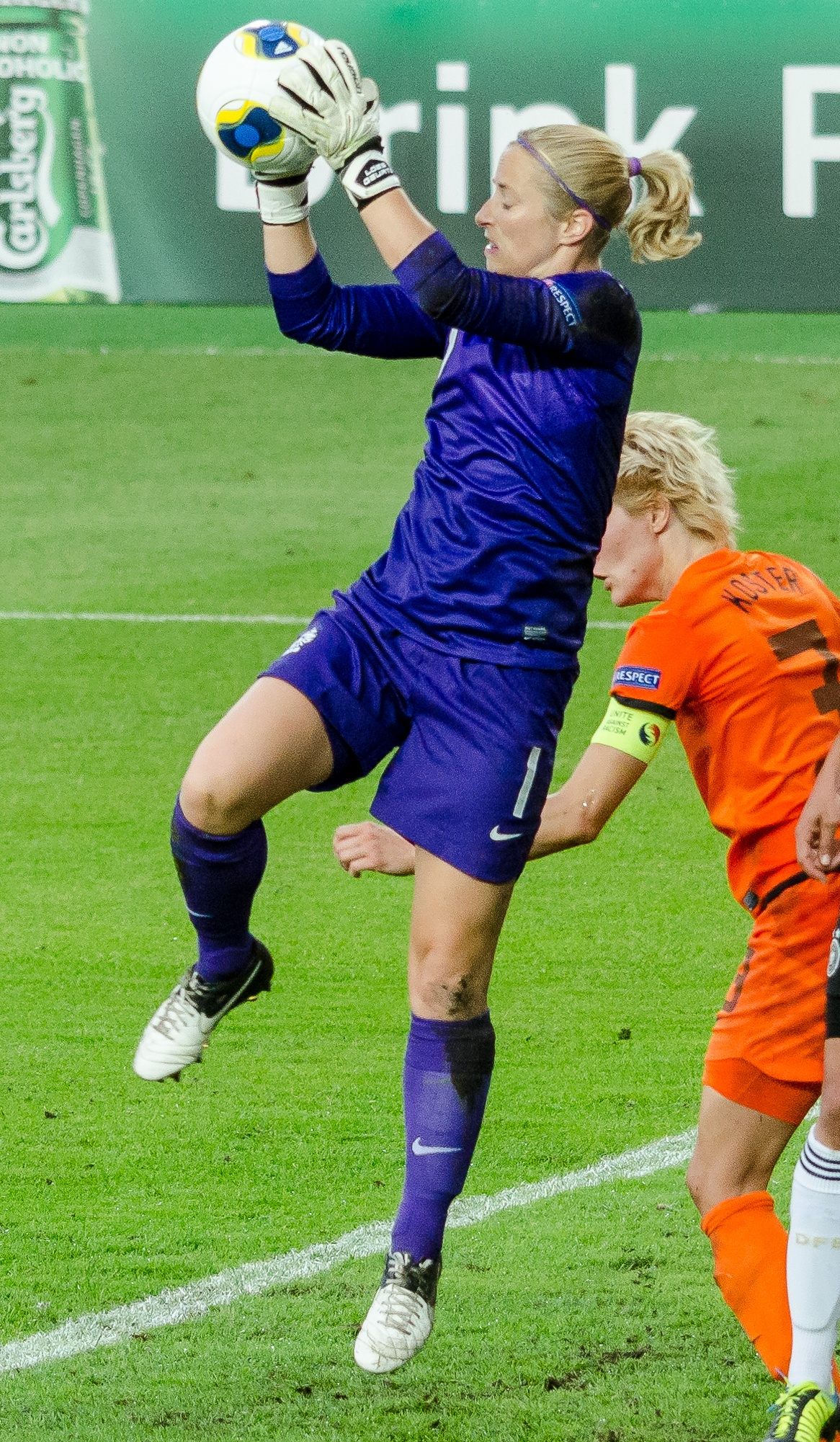 Dutch goalkeeper Loes Geurts playing the team's first game of the UEFA Women's Euro 2013, 0-0 against Germany in Växjö.